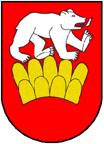 Coat of arms of Wuppenau, Canton of Thurgau, SwitzerlandEsperanto: Blazono de Wuppenau, Kantono Turgovio, Svislando